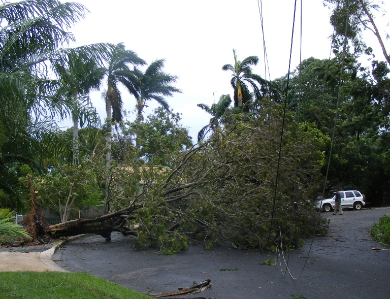 Powerlines down in Alawa (Darwin), the morning after Cyclone Helen hit Darwin in January 2008.